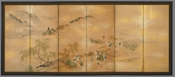 Japan, 18th-19th century Paintings; screens Pair of six-panel screens; ink, color, and gold flecks on paper Overall: 49 1/8 x 111 7/8 in. (124.8 x 284.0 cm) Gift of Julia and Leo Krashen (M.86.138.1a-b) Japanese Art